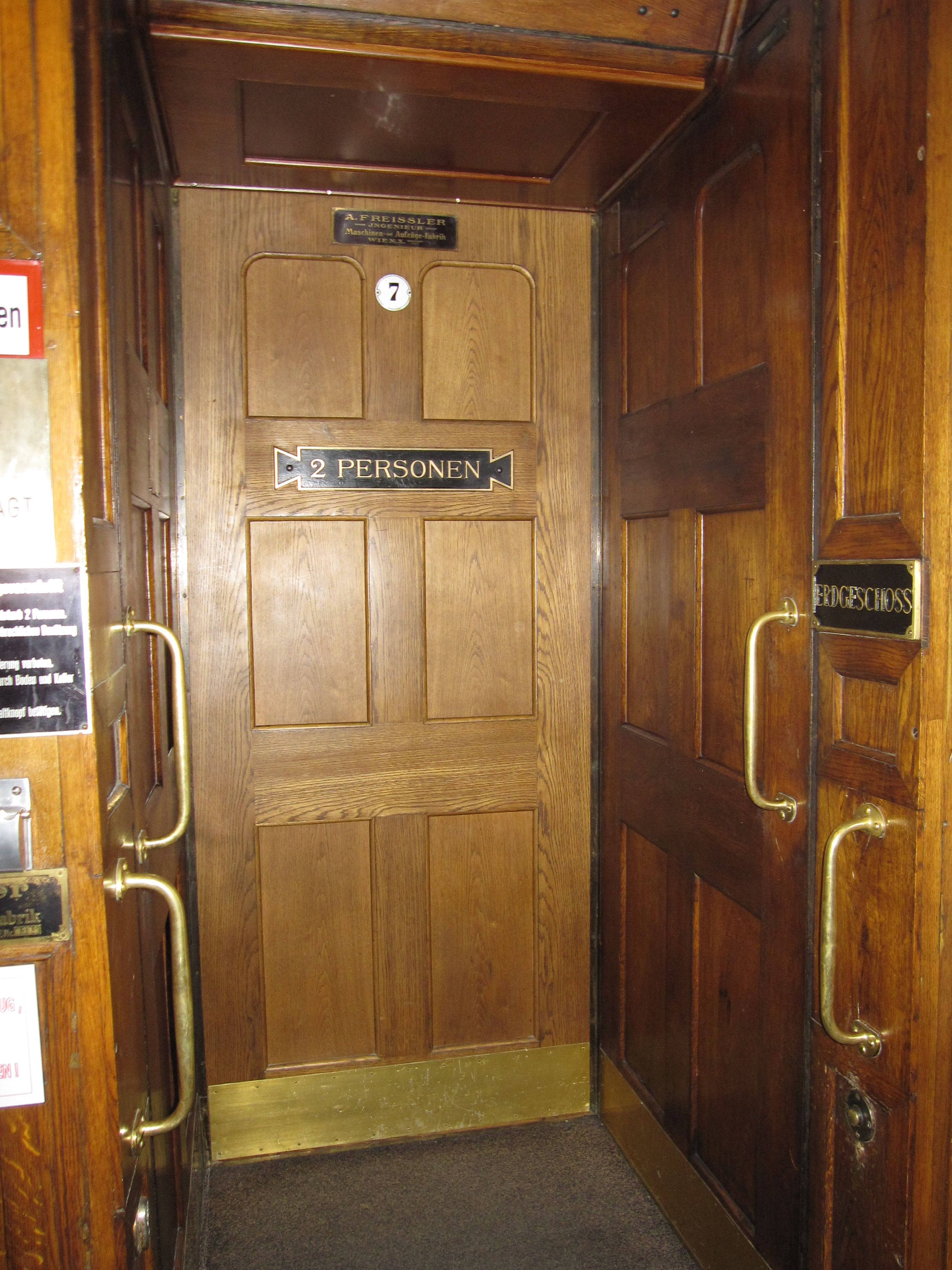 Anton Freissler paternoster F. Nr. 6295 (1910) in the House of Industry, Vienna.